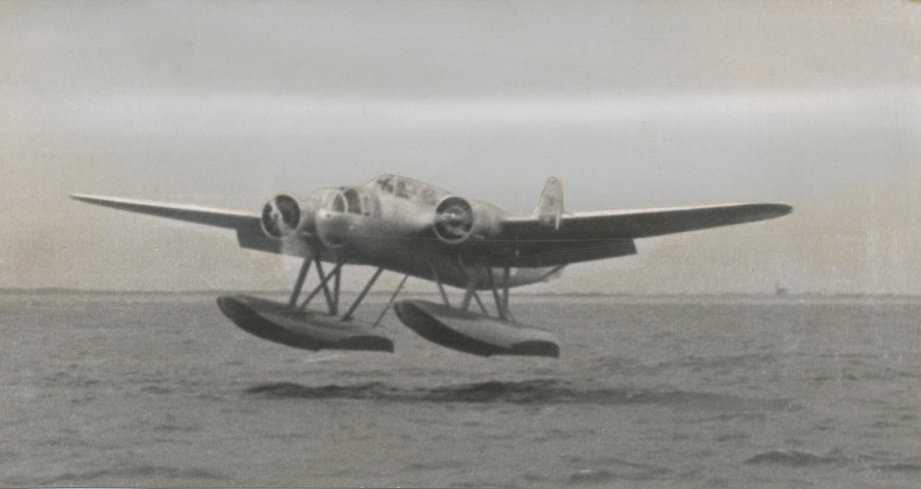 unknown Fokker T-8W. for some reason the sky just above the aircraft has been changed.